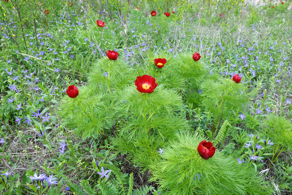 Paeonia tenuifolia